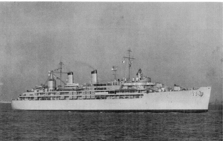 The U.S. Navy destroyer tender USS Yosemite (AD-19) underway, circa in 1954.